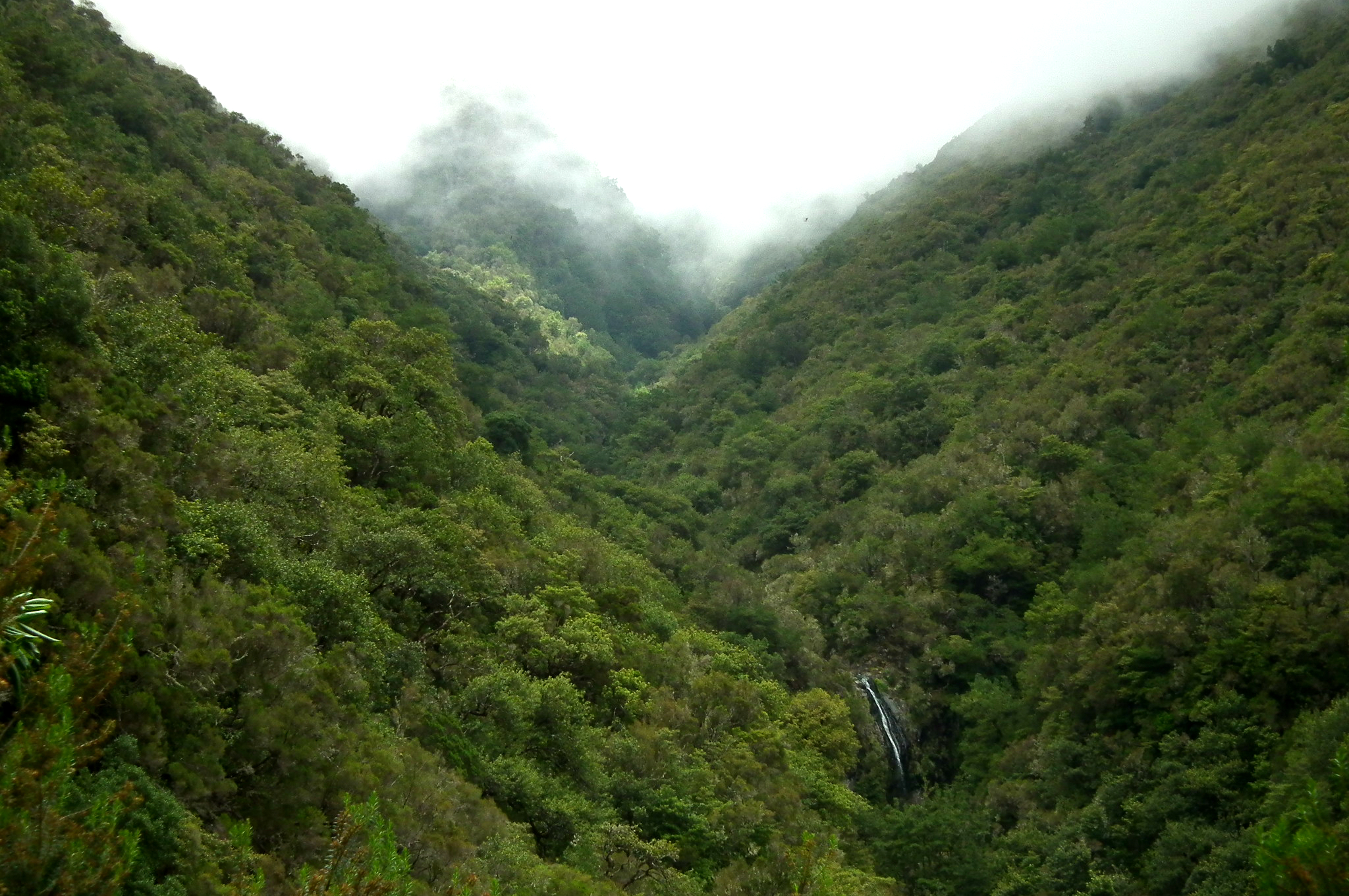 Old roads and passagens between villages and other places in Madeira Island (Atlantic Ocean) surronded by UNESCO protected pré historic forest. This is a photography of a Site of Community Importance in Portugal with the ID: PTMAD0001. Natura2000 entry, EEA entry